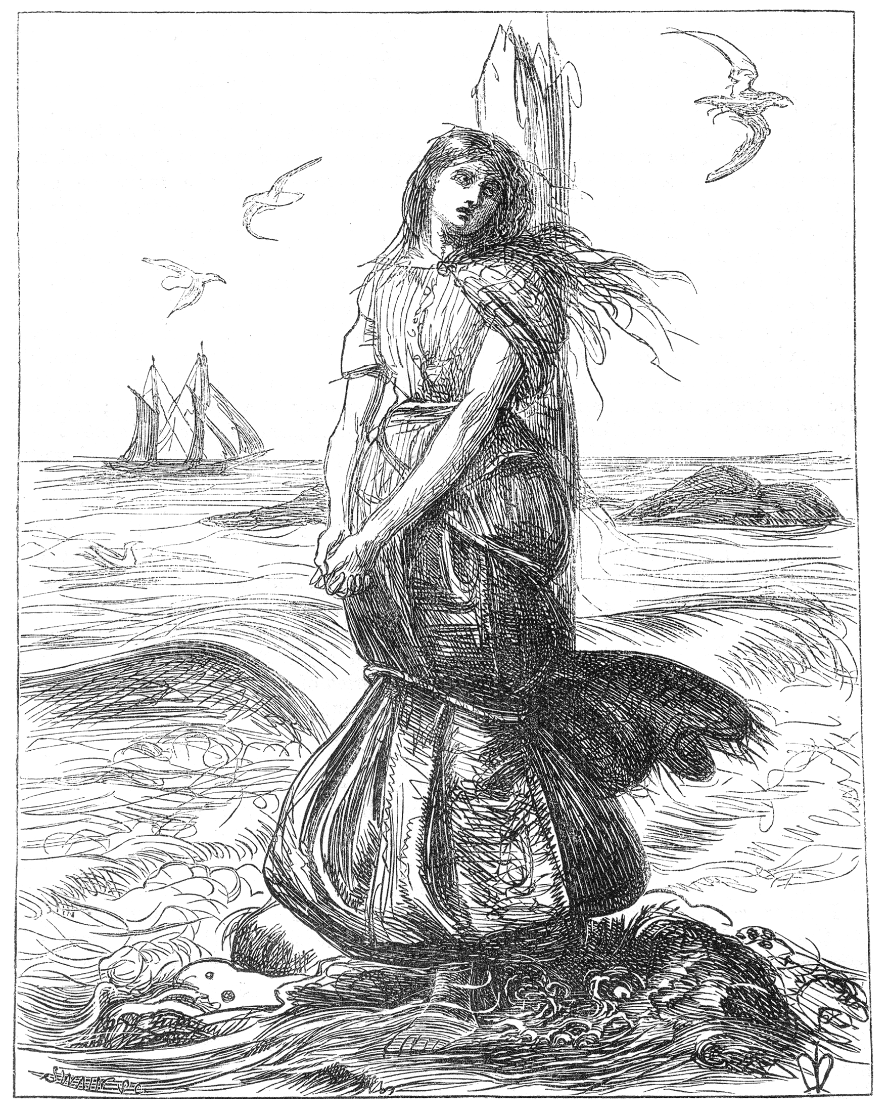 Wood engraving depicting the Scottish martyr Margaret Wilson, tied to a stake in the Solway, because, as a Covenanter, refusing to acknowledge James II as head of the church. Drawn by John Everett Millais, engraved by the workshop of Joseph Swain. Published in Once a Week, volume 7, page 42. The caption in the magazine reads: 'See Lord Macaulay's History of England, vol. i., page 501. Margaret Wilson's epitaph, from Woodrow, in the Church yard of Wigton, is as follows: Murdered for owning Christ supreme / Head of his Church, and no more crime / But her not owning Prelacy, / And not abjuring Presbytery; / Within the sea, tied to a stake, / She suffered for Christ Jesu’s sake.'